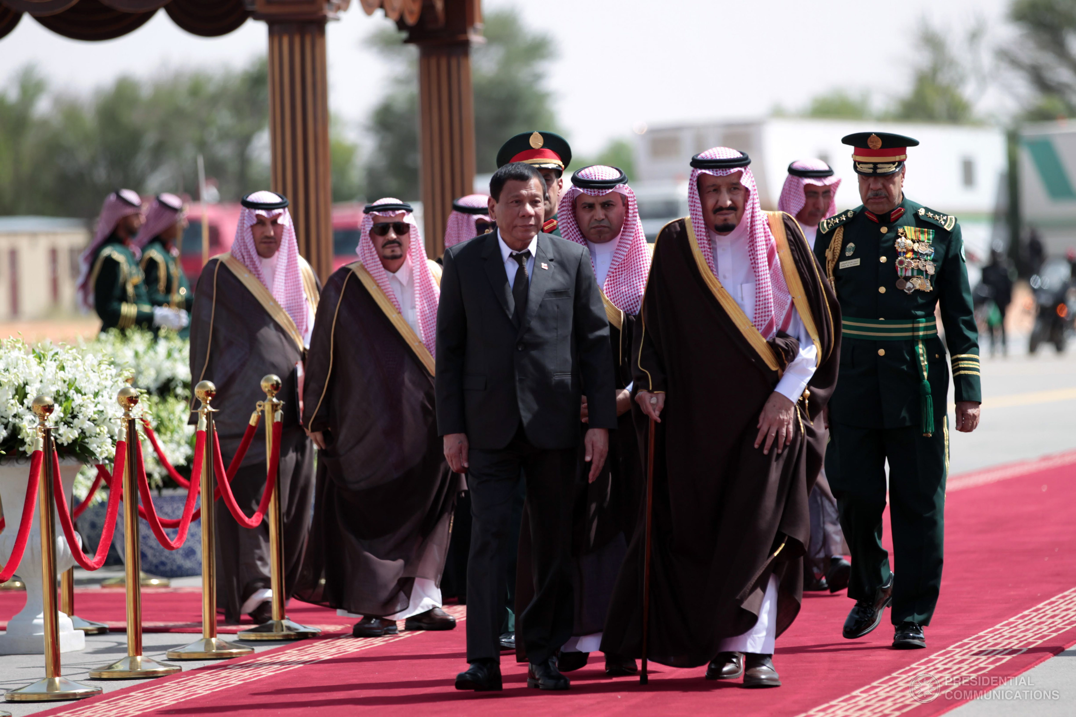 Philippine President Rodrigo Duterte is welcomed by King Salman of Saudi Arabia at a ceremony in Riyadh on April 11, 2017.